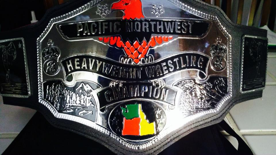 The current NWA Pacific Northwest Heavyweight championship belt, reintroduced in NWA Blue Collar Wrestling in April 2015